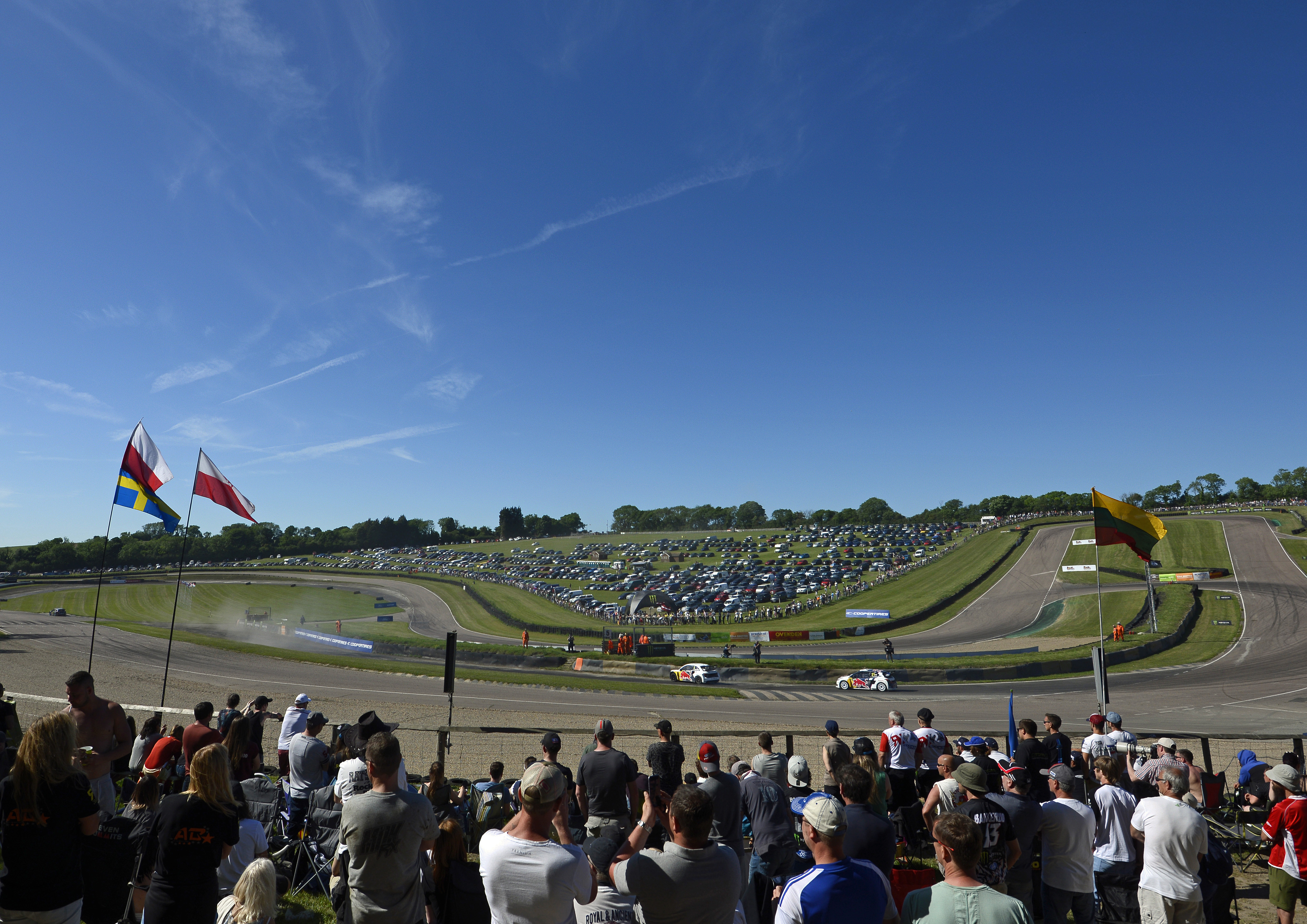 2017 FIA World Rallycross Championship // Round 05, Lydden Hill // Credit: EKS/Daniel Roeseler